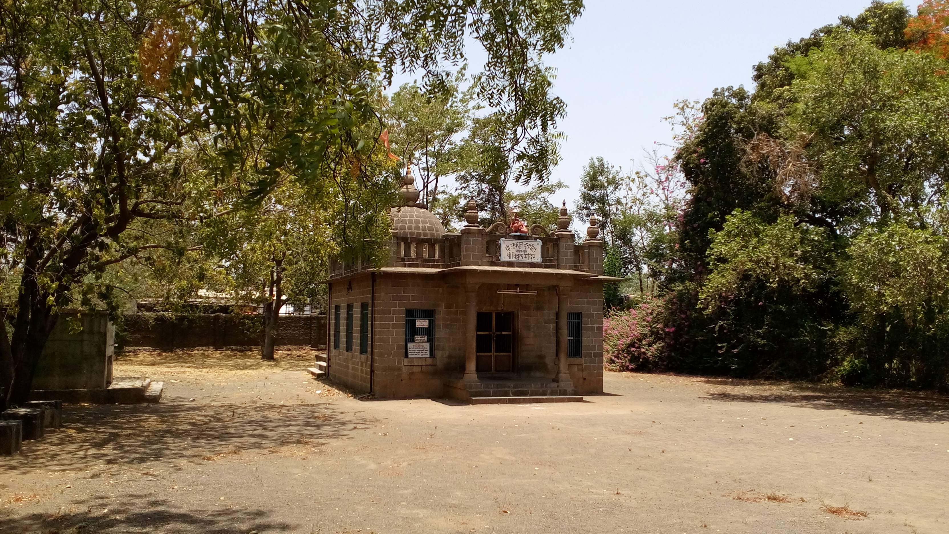 One of the oldest Vitthal-Rukmini temple situated near Dussehra Maidan, Malegaon Road. A very big fair is being held on Ashadhi Ekadashi.